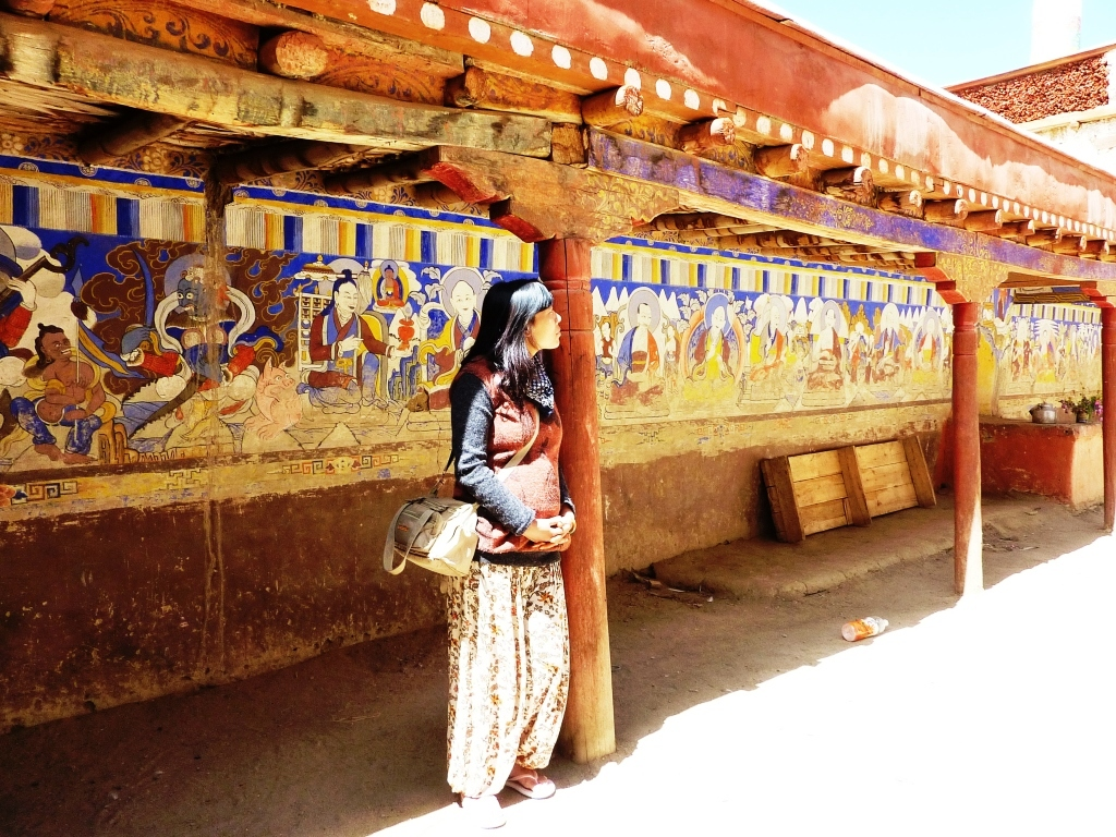 Photo taken by myself at the monastery with a young Tibetan visitor in it.